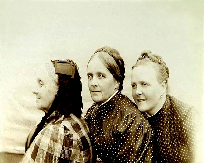 Countess Praskovia Sergeyevna Uvarov (1840—1924), née Princess Shcherbatov (center) with his mother Princess Scherbatov Praskovia Borisovna (1818—1899), née Sviatopolk-Chetvertinskaya (left) and his daughter Praskovia Alekseyevna Uvarov (1860—1934) (right).